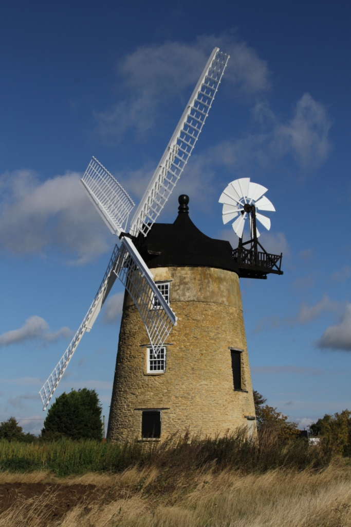 Tower mill at Great Haseley, Oxfordshire, viewed from the south